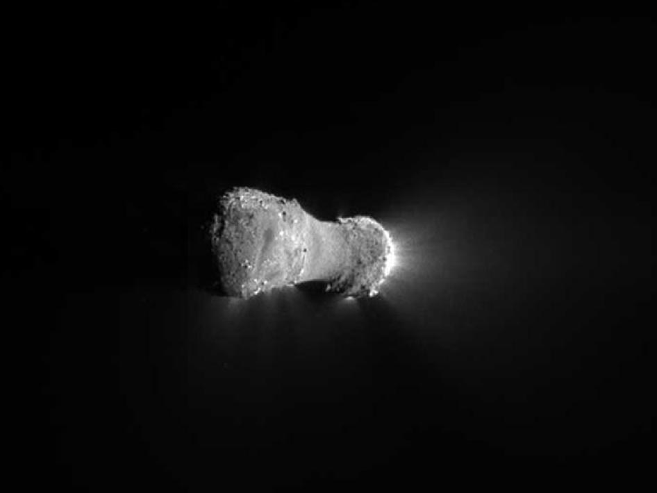 EPOXI Mission's Close-Up Views of Comet Hartley 2. This close-up view of comet Hartley 2 was taken by NASA's EPOXI mission during its flyby of the comet on Nov. 4, 2010. It was captured by the spacecraft's Medium-Resolution Instrument.